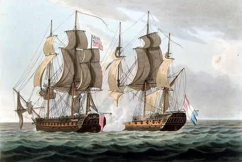 Capture of Proserpine by HMS Dryad - 13 June 1795